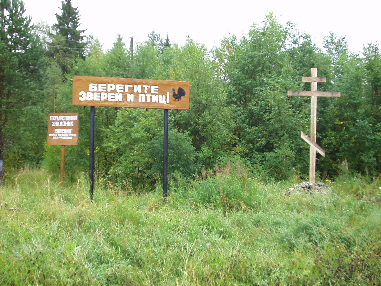 Siyskiy nature reserve public warning signs, Arkhangelskaia oblast, Kholmogorskiy raion